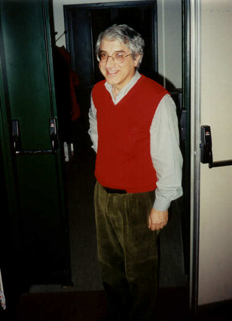 prof. roberto dovesi